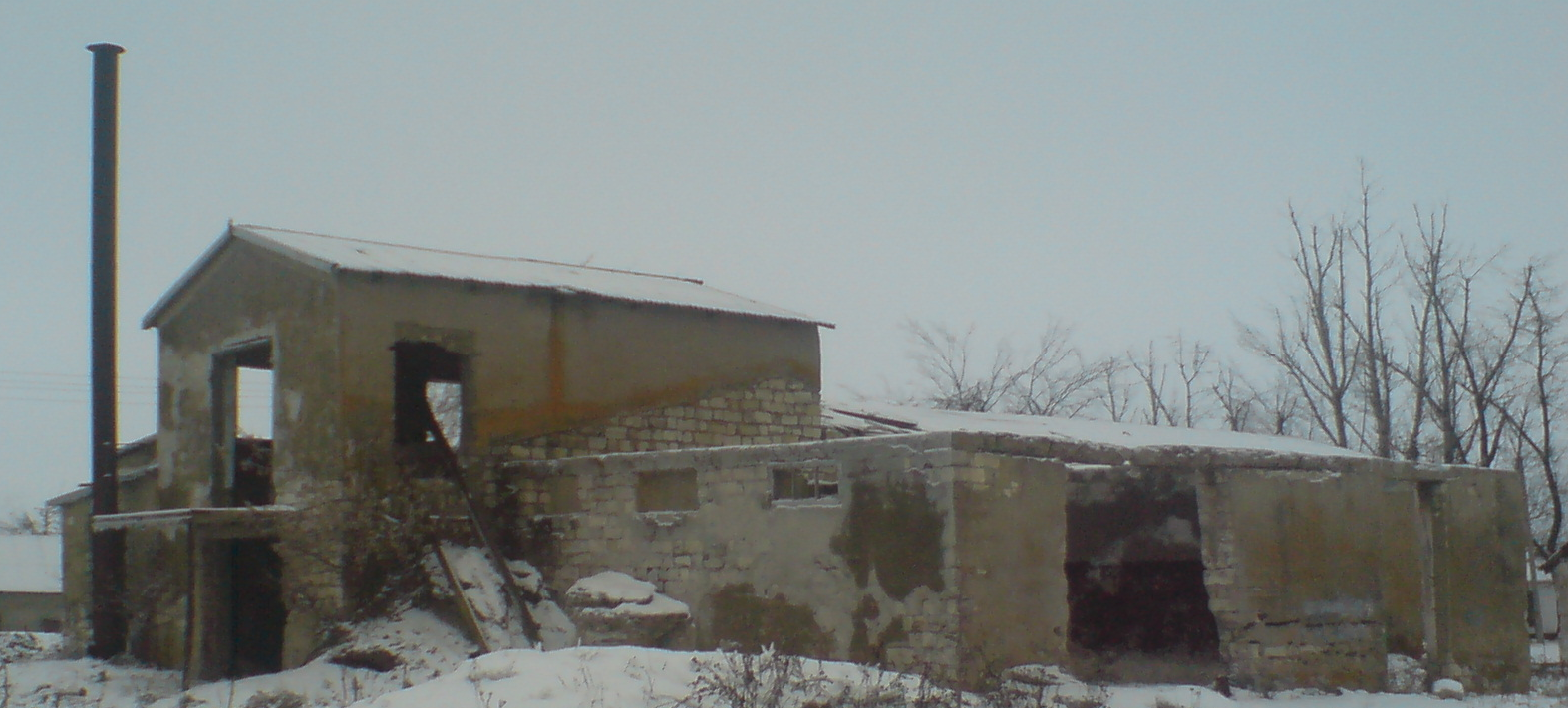 Moskovska Zatyshshia